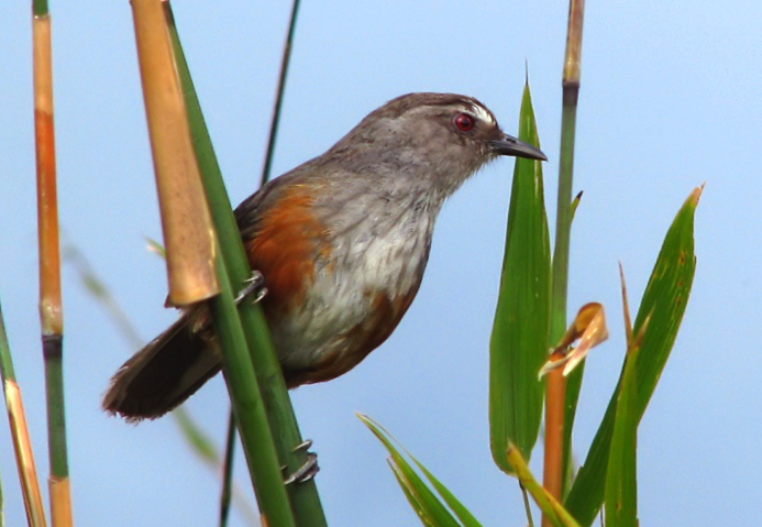 Trochalopteron fairbanki meridionale